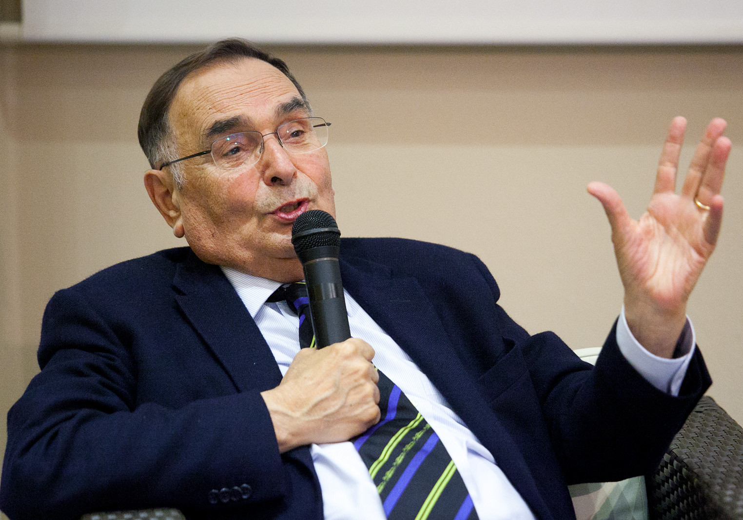 Gian Paolo Dallara (born 16 November 1936) is an Italian businessman and motorsports engineer. He is the owner of Dallara Motorsports, a company that develops racing cars.